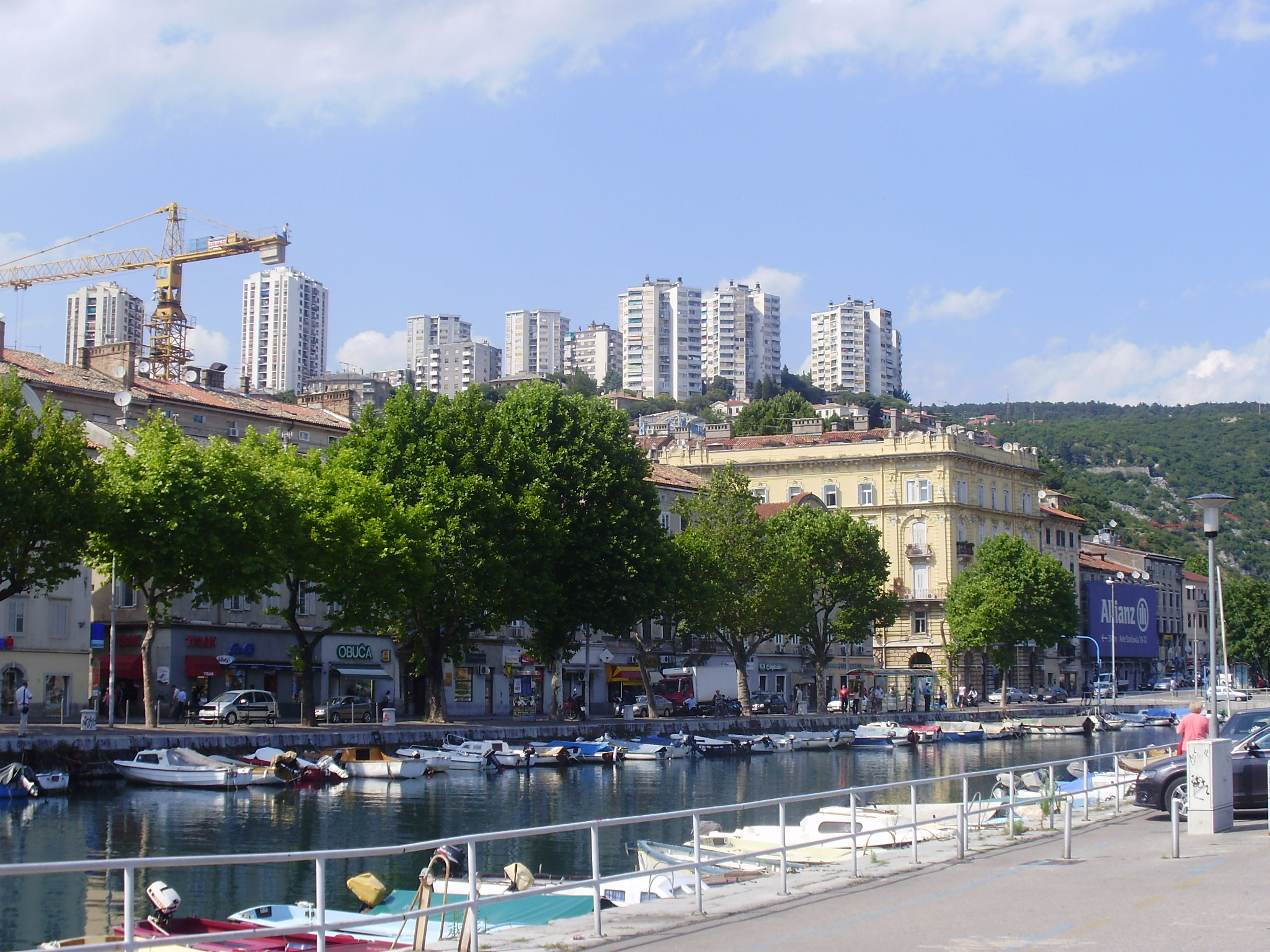 Rijeka, town